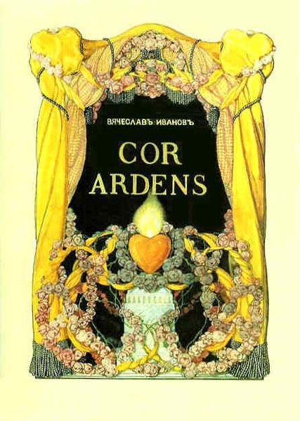 Bookcover by Konstantin Somov (1869-1939)